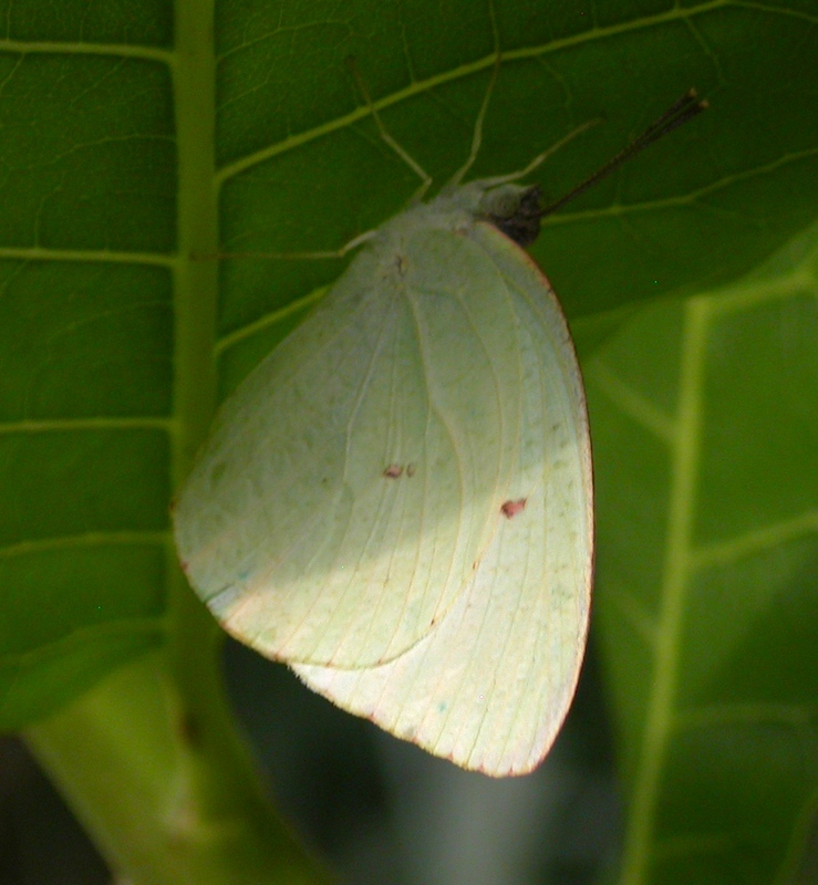 Catopsilia florella, IITA campus, Cotonou, Benin, 4 May 2012 (underside)